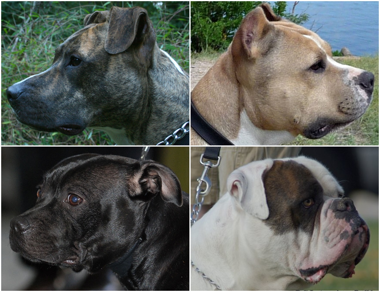 The Bully Breeds. "Pitbull" is sometimes used as poorly defined term for many dog breeds with certain physical characteristcs. A selection of "pit bull-type" dogs, assembled from images from Commons. American Pit Bull Terrier, American Staffordshire Terrier, Staffordshire Bull Terrier, American Bulldog. Original works: File:2008-10-19 Pit Bull at Carolina North Forest.jpg by Ildar Sagdejev (Specious) (2)American Staffordshire Terrier Mumford.jpg by Carroy47 File:Staffordshire Bull Terrier MWPR Katowice 2008 001.JPG by Lilly M File:PSI's Bullseye.jpg by PSIDOGS